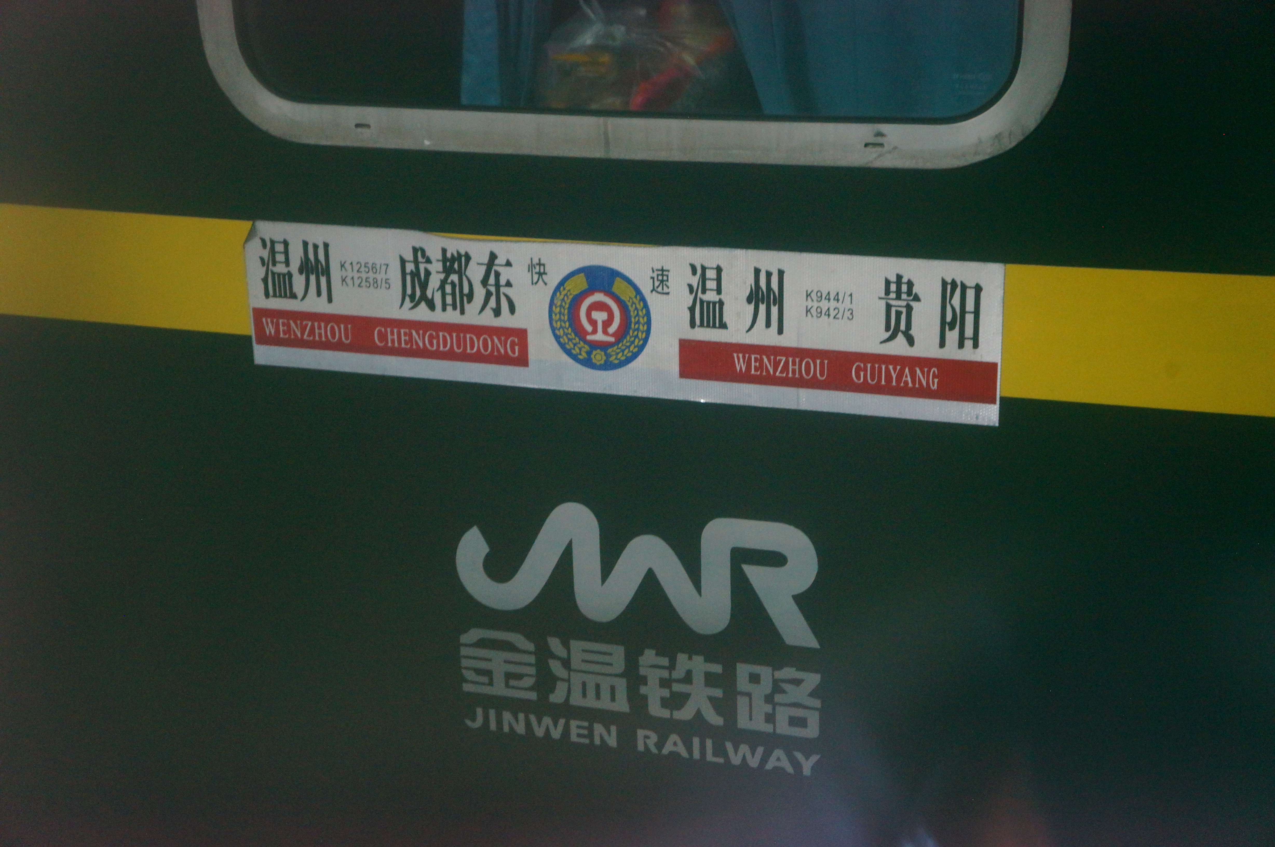 K941,2,3,4 and K1255,6,7,8 info board in 201612. Taken at Liangjiadu Railway Station where is another black hole for entering Nanchang Hub